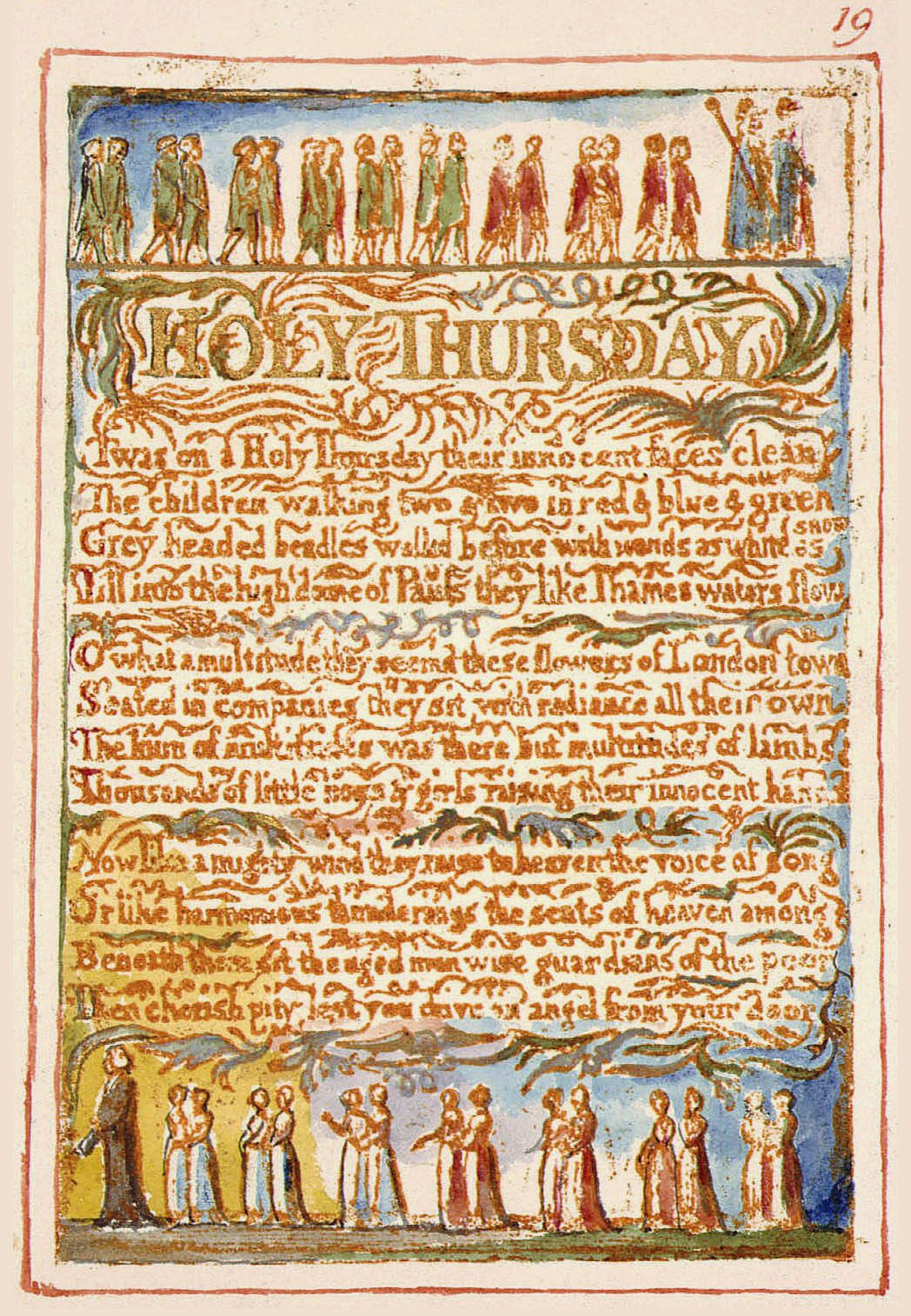 Songs of Innocence and of Experience, copy AA, 1826 (The Fitzwilliam Museum) object 19 HOLY THURSDAY